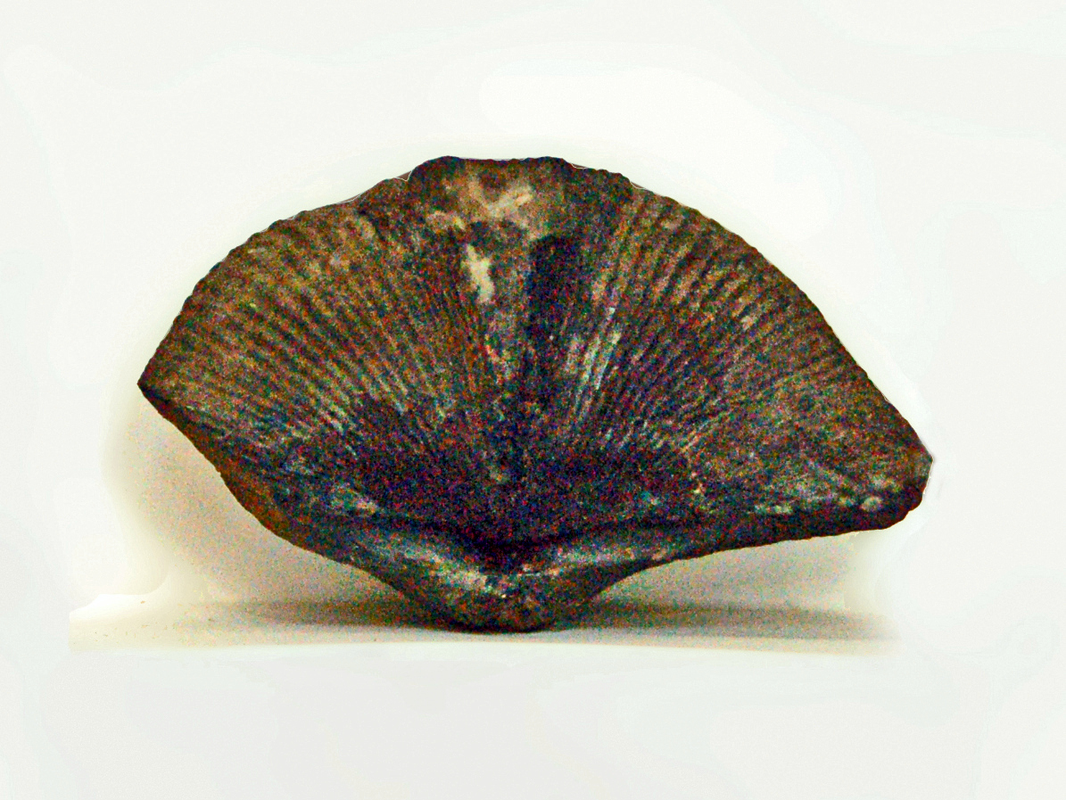 Spirifer verneuli from Belgium